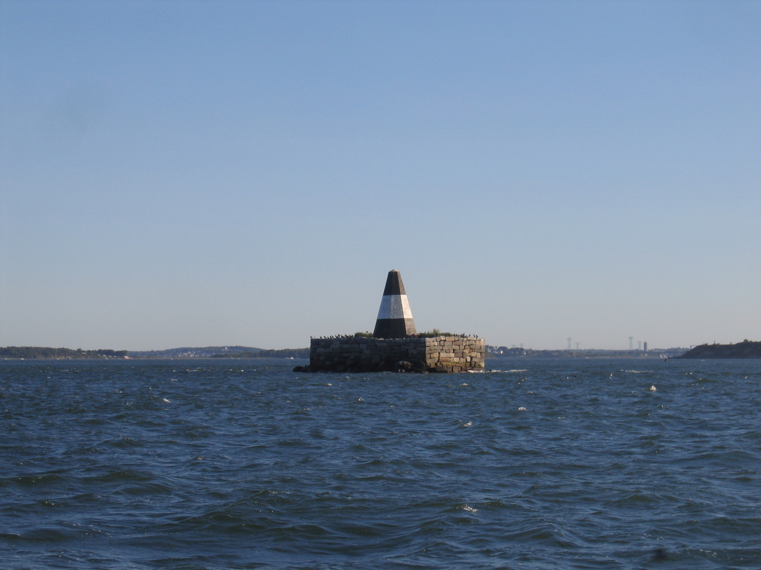 Pyramid beacon on Nixes Mate Island in Boston Harbor an hour after high tide looking South-West